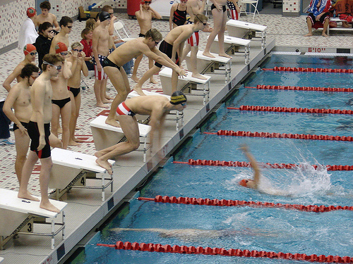 Swimmers about to make the exchange during a relay race. This is from a "double dual" swim meet. The participants were Mt. Vernon (Fortville) High School, Lawrence North High School, and Fishers High School. Mt Vernon swimmers are in the red,white, and blue trunks. Lawrence North is in the black suits with a green emblem, as well as red and green caps. And Fishers is wearing dark blue trunks with red stripe. The Mt Vernon swimmer leaving the blocks is Evan Rhinesmith, and the MV swimmer doing the back stroke into the wall is Christian Hanselmann. The photo was taken at the Fishers High School Natatorium in Fishers, Indiana.